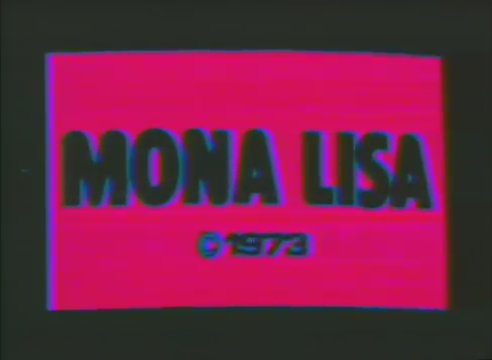 This is the title of a 1973 Japanese experimental film.